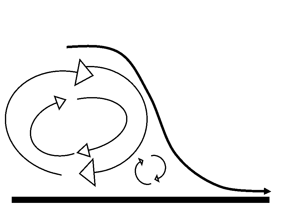 Descending wind from the top of the boundary layer due to eddies